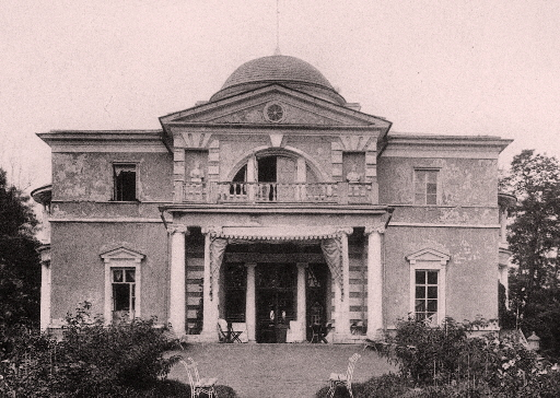 Bratsevo Villa of Countess Stroganoff